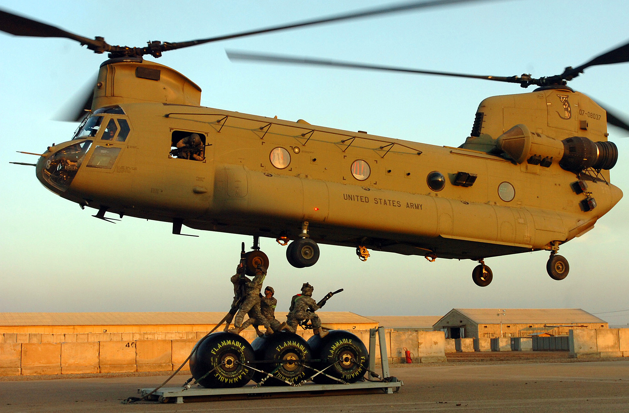 Soldiers from 1st Air Cavalry Brigade, 1st Cavalry Division, U.S. Division - Center, and the 3rd Infantry Division attach three fuel blivets to a CH-47F Chinook helicopter for a sling load mission, Feb. 10. The blivets were being transported to an Iraqi outpost called Obeidi near the Syrian border to establish a temporary Forward Arming and Refueling Point for Air Cav aircraft involved in operations in the area. 1st Air Cavalry Brigade, 1st Cavalry Division Public Affairs Photo by Sgt. Alun Thomas Date: 02.10.2010 Location: CAMP TAJI, IQ Related Photos